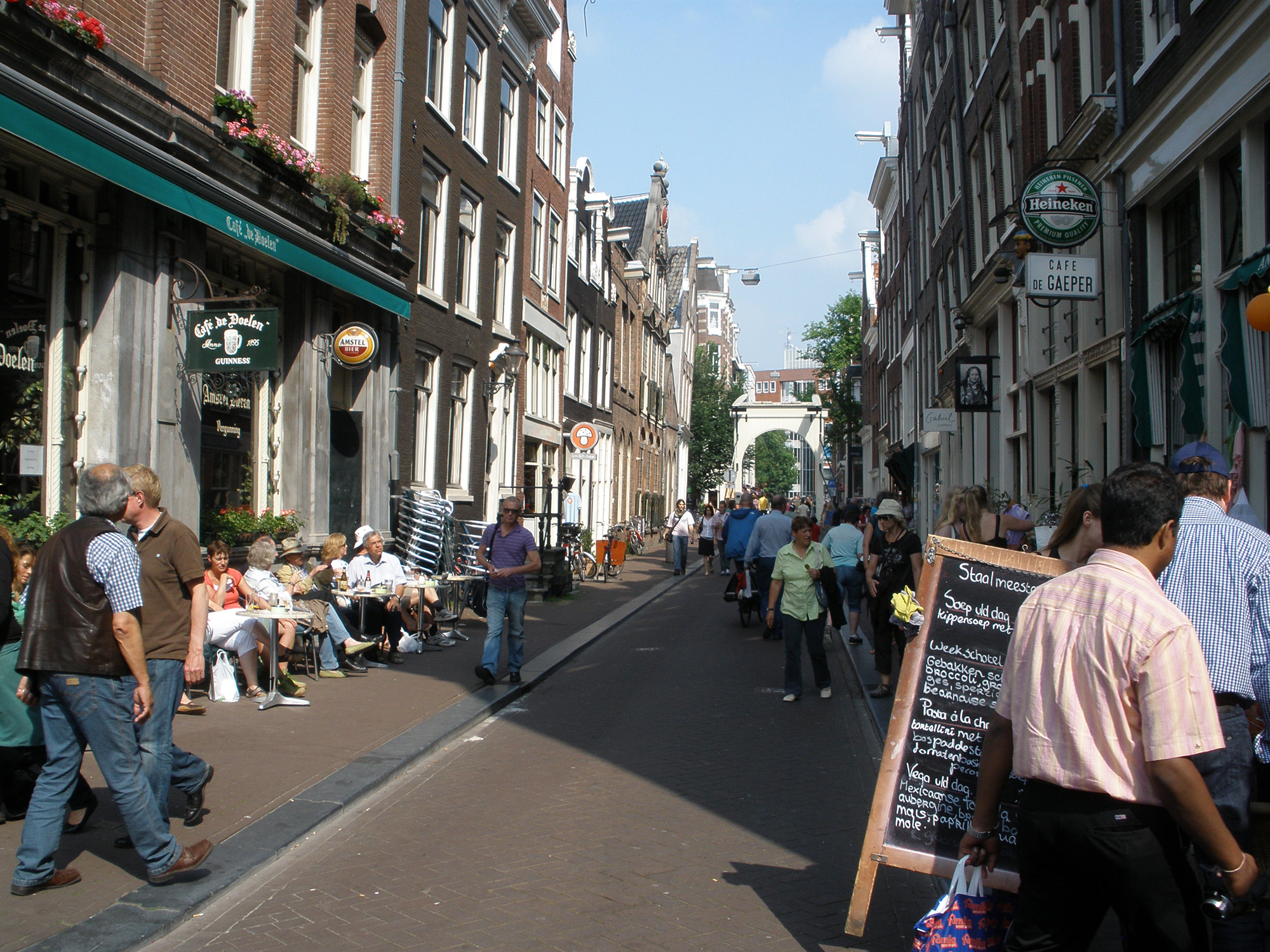 The Staalstraat in Amsterdam, looking east. In the distance, the bridge over the Groenburgwal canal is visible, and beyond that, the city hall (Stopera).